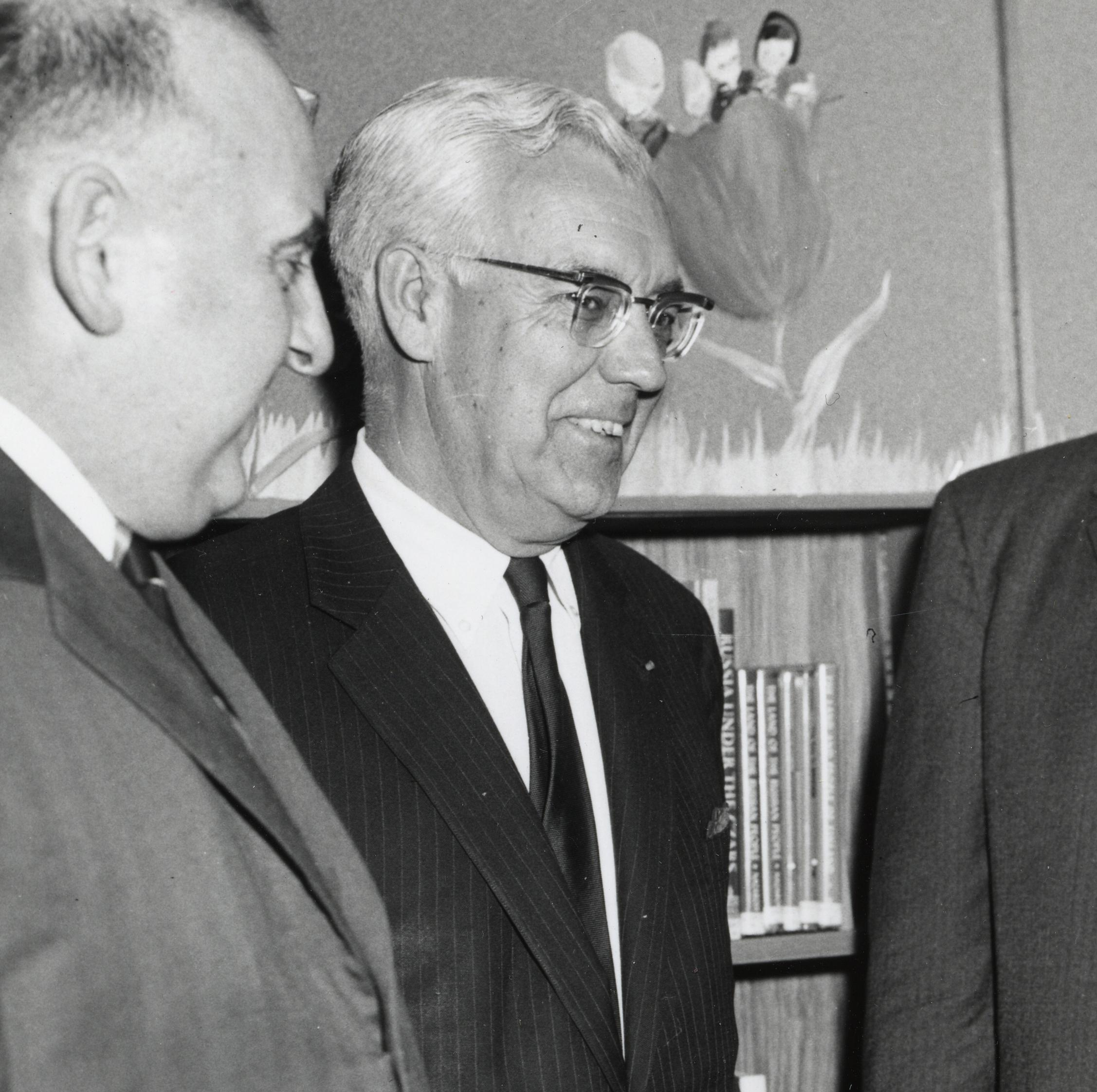 Title: An unidentified boy shakes hands with Mayor John F. Collins as Lenahan O'Connell, esp., Erwin Canham and Augustin Parker watch Creator: City of Boston Date: circa 1960-1968 Source: Mayor John F. Collins records, Collection #0244.001 File name: 244001_0652 Rights: Copyright City of Boston Citation: Mayor John F. Collins records, Collection #0244.001, City of Boston Archives, Boston